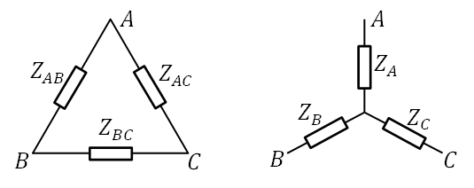 Illustration of Y and Δ connections of impedances.